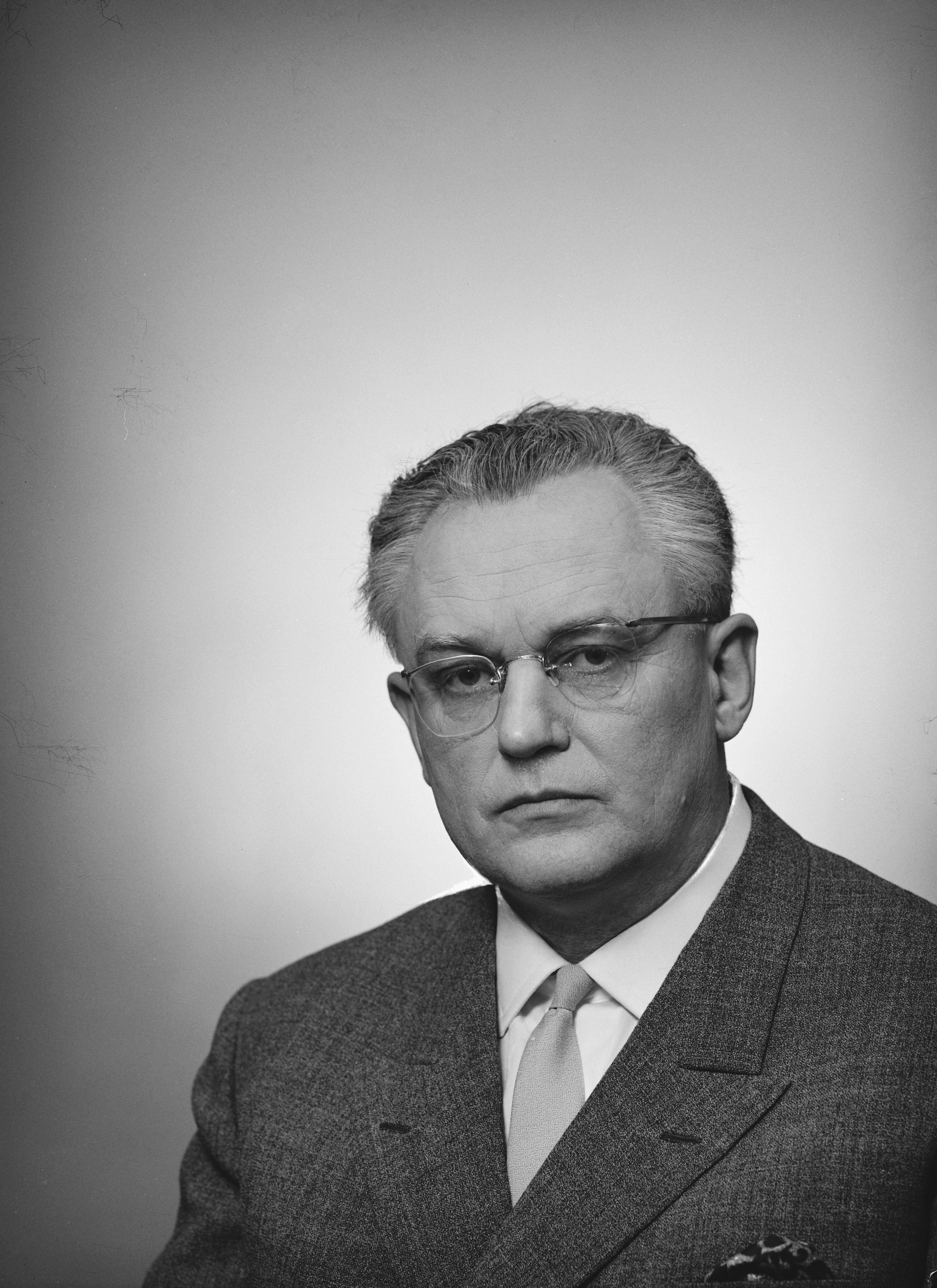 Photograph of the Finnish linguist and professor Niilo Peltola (1915–2008).